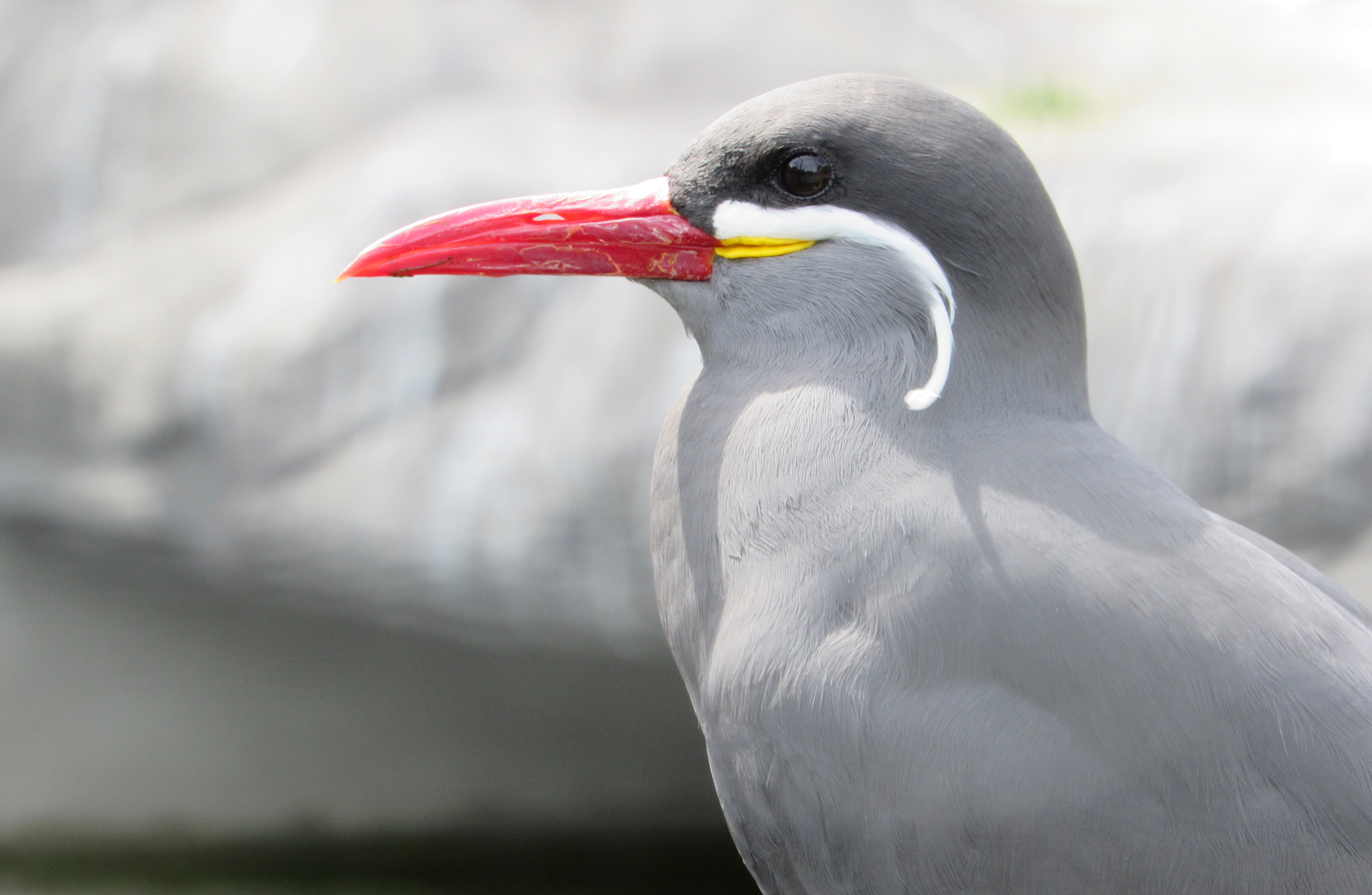 Profile shot of an adult Inca tern (Larosterna inca) at Zoologischer Stadtgarten, Karlsruhe.